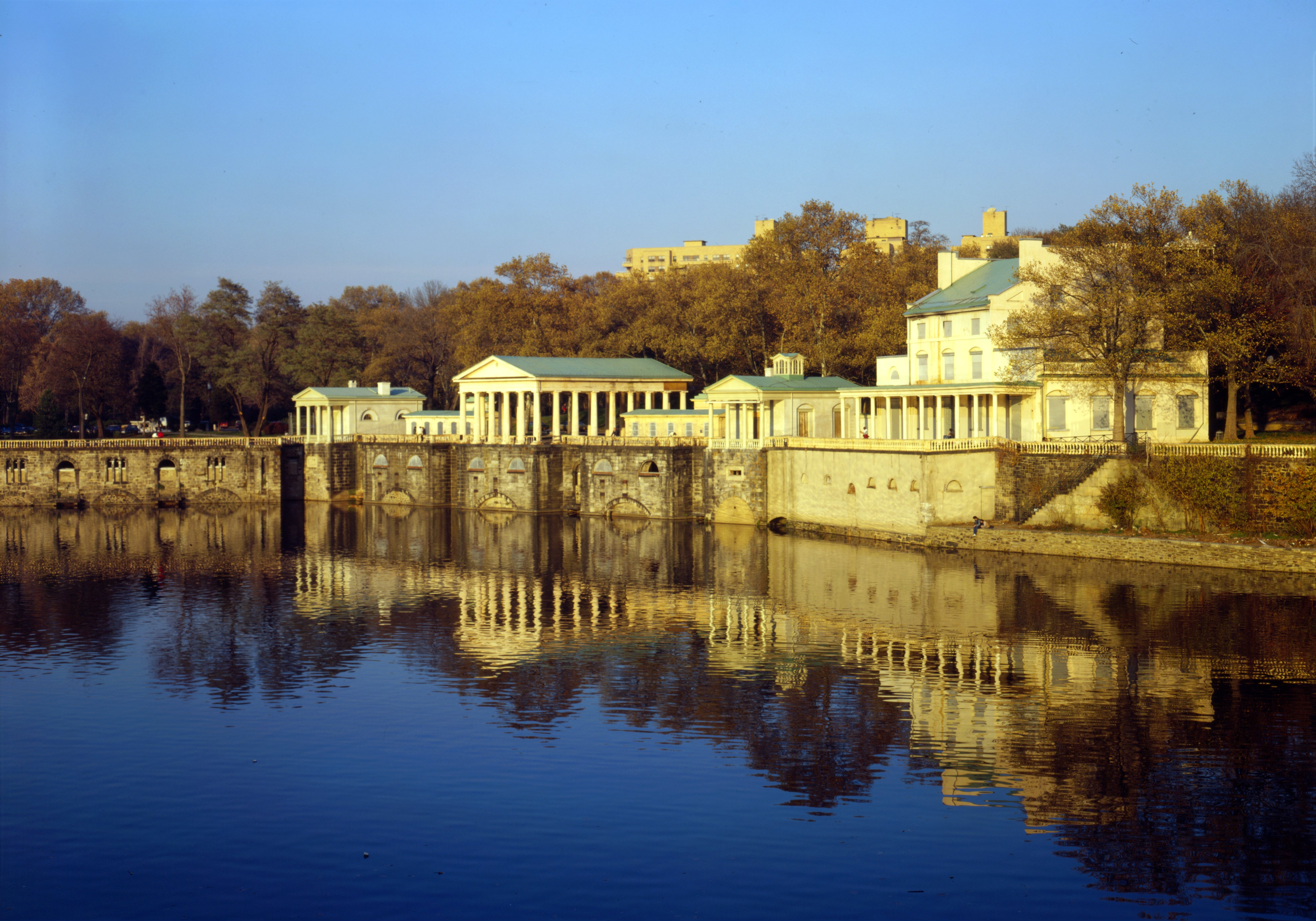 Fairmount Waterworks, East bank of Schuylkill River, Aquarium Drive, Philadelphia, Philadelphia County, PA View looking northeast at waterworks from across Schuylkill River. Photo taken December, 1984.